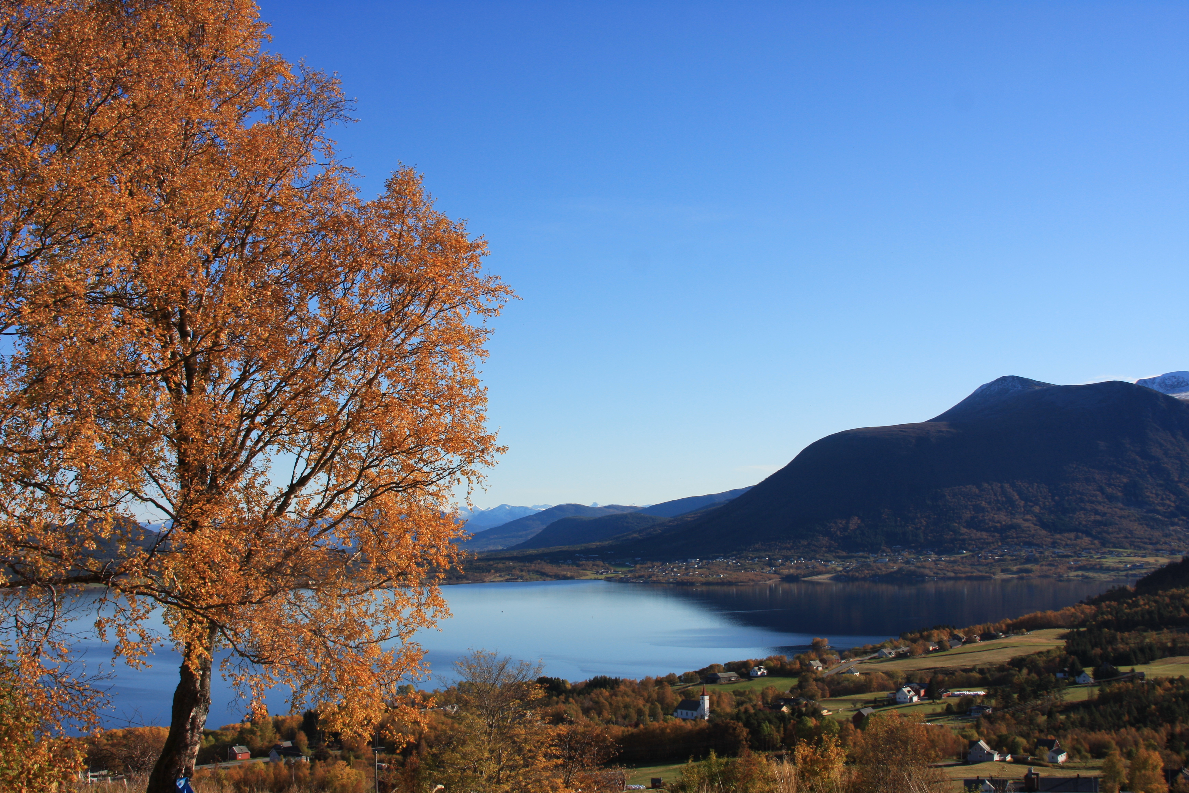 Panorammic view in autumn colors over Fiksdal, a village in the county Møre og Romsdal in Norway. You see the white church in the middle of the village and the fjord Tomrefjord.